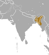 Capped Langur (Trachypithecus pileatus) range